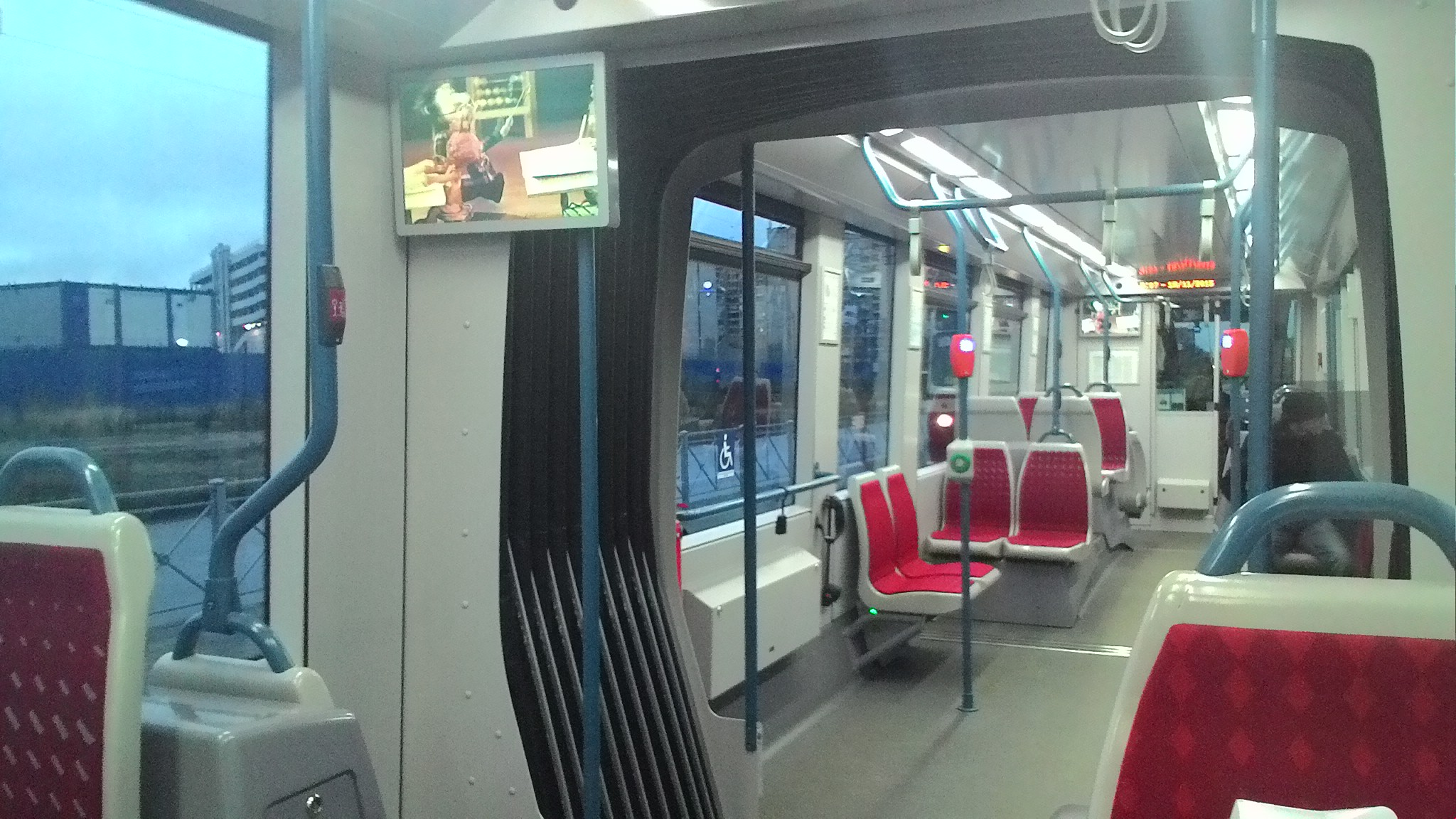 Tram Alstom Citadis 301 CIS in SPB (interior)